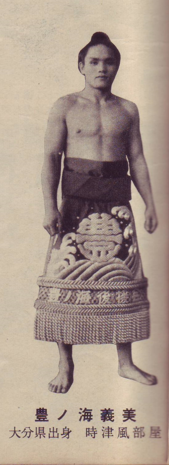 Toyonoumi Yoshimi (sumo wrestler. Maegashira). taken in 1958, or before that.